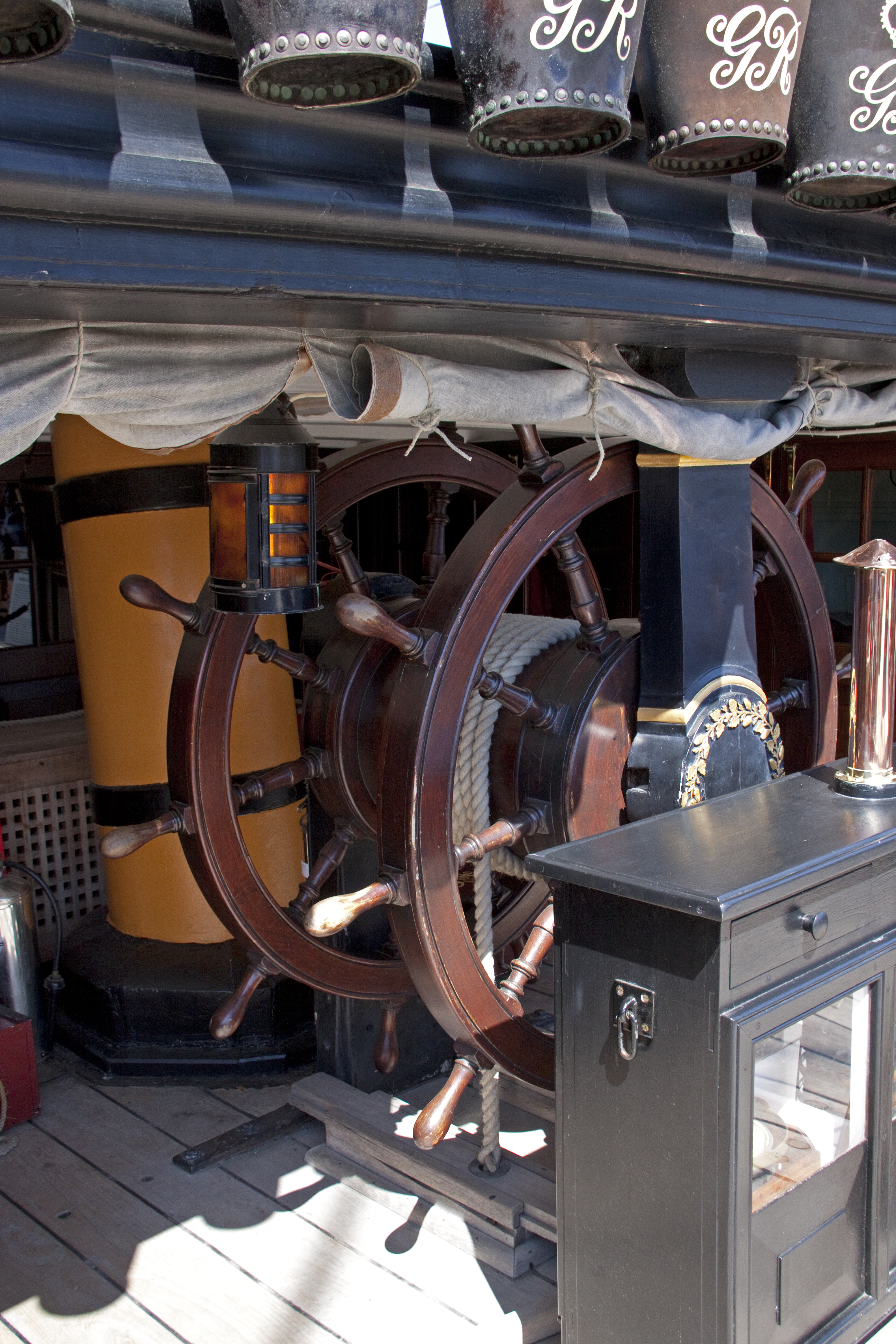 Victory wheel